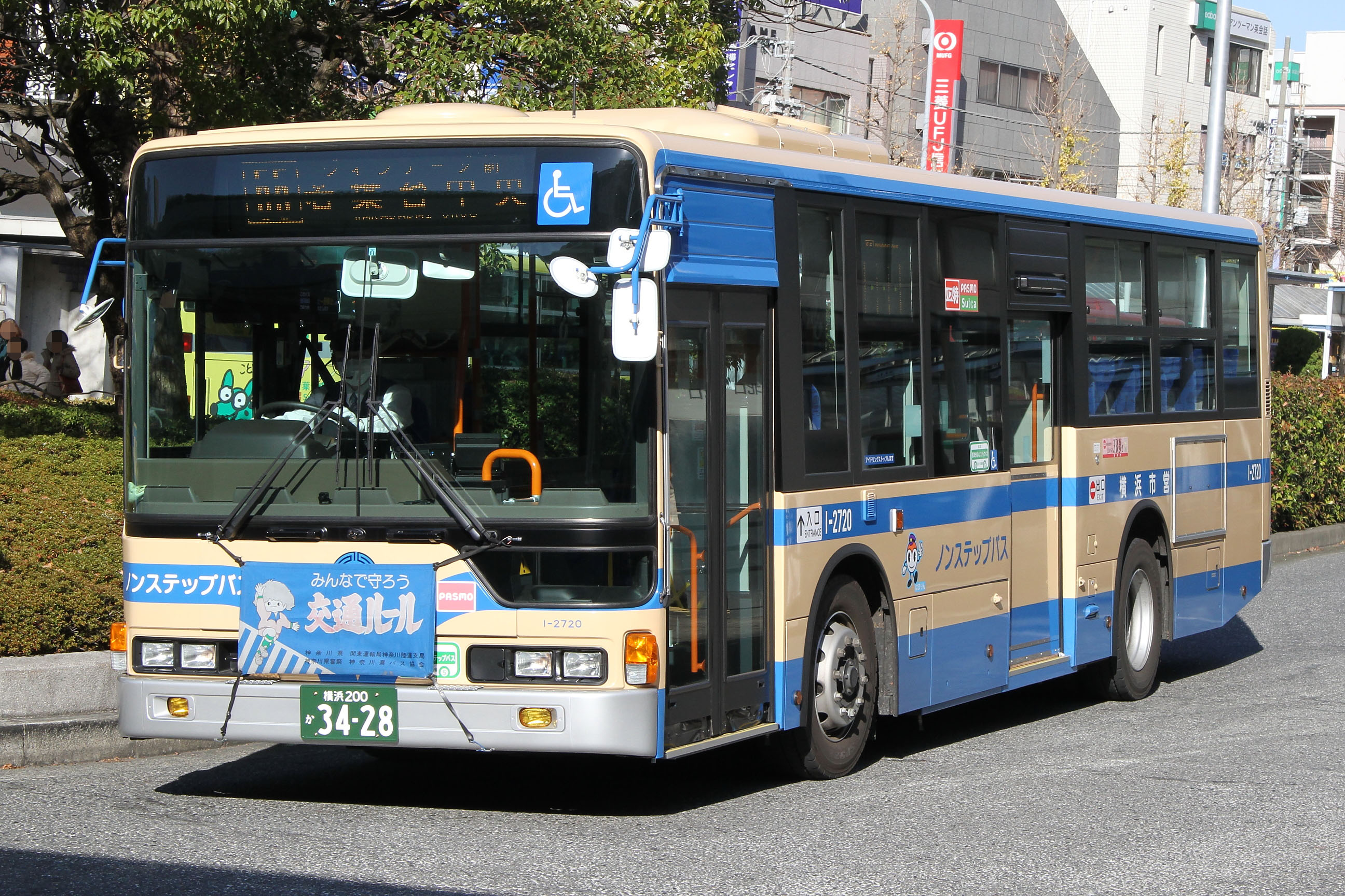 Yokohama City Transportation Bureau car 横浜市営バスの車両